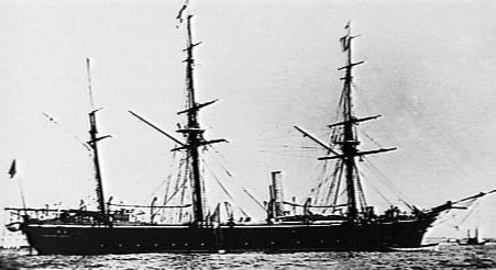 AWM caption : "C. 1878. STARBOARD SIDE VIEW OF THE SLOOP HMS CORMORANT."